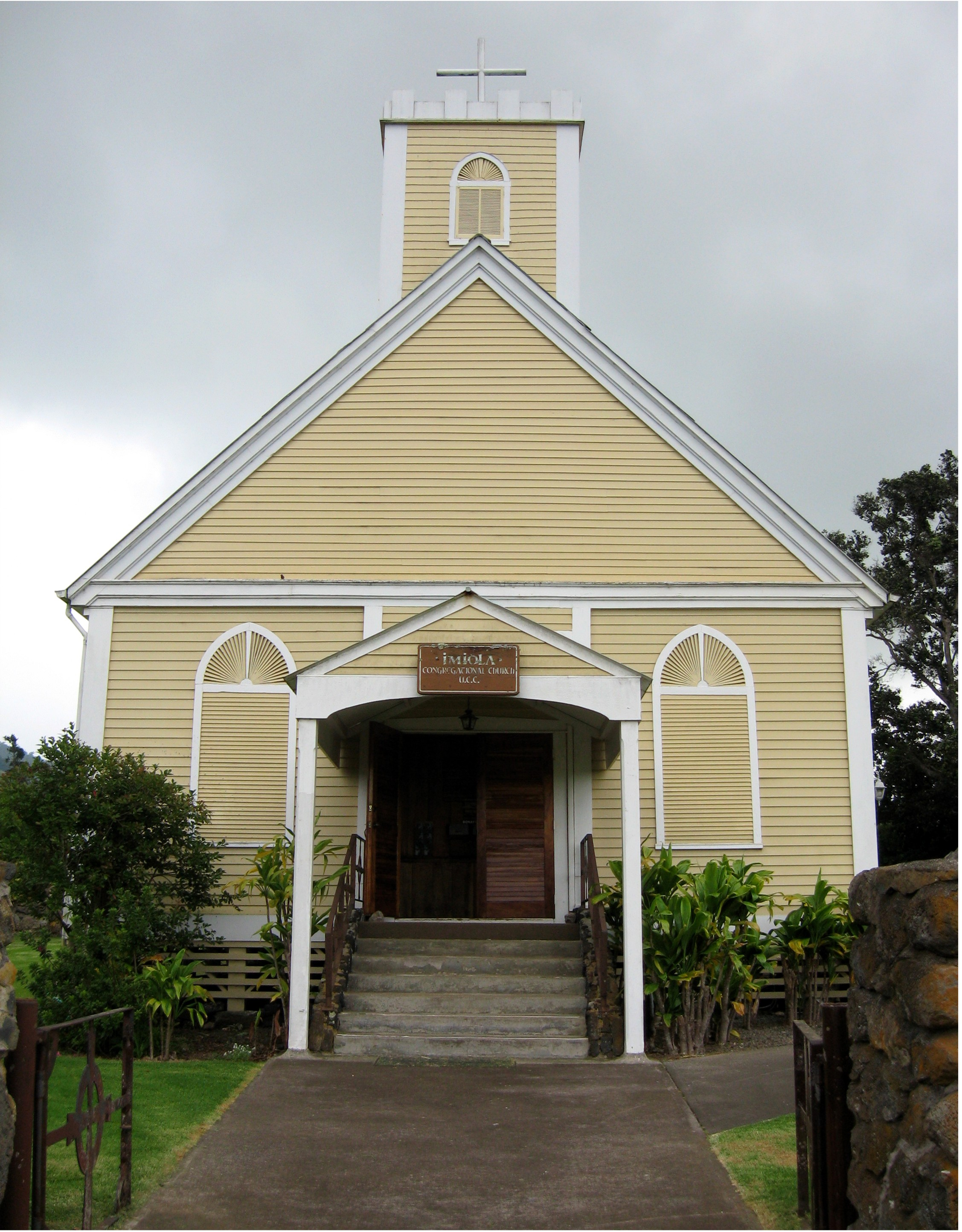 Imiola Church in Waimea (Kamuela), Hawaii County, Hawaii. Built by Lorenzo Lyons, listed on National Register of Historic Places